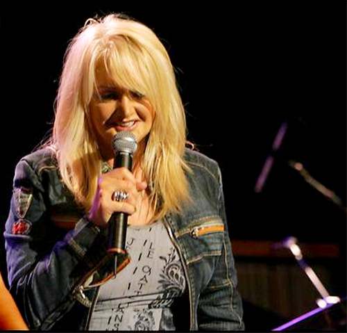 A cropped version photo British singer Bonnie Tyler